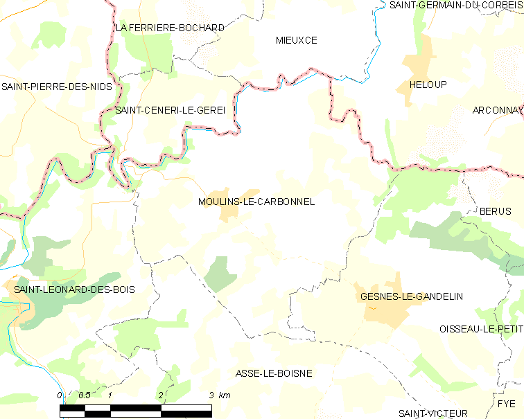 Map of French municipality